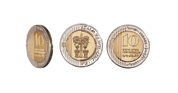 Palm tree with seven leaves and two baskets with dates, the words "for the redemption of Zion" in ancient and modern Hebrew alphabet.